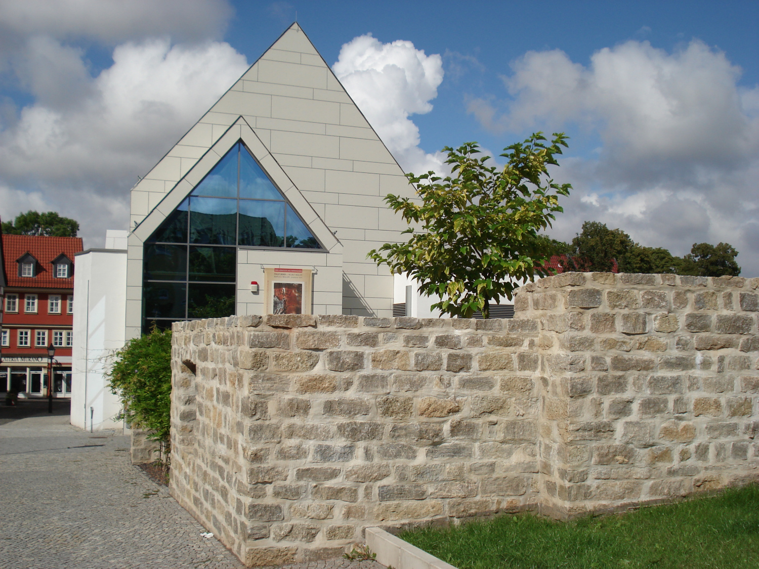 Glass front of the city museum (Flohburg) Nordhausen.